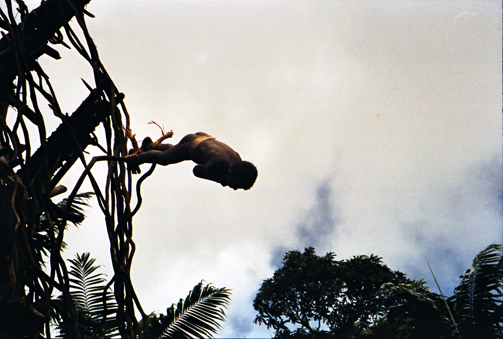 Caught in flight, a boy jumping from a lower platform of a tower during a festival on Pentecost Island. Pentecost Island Vanuatu 1992